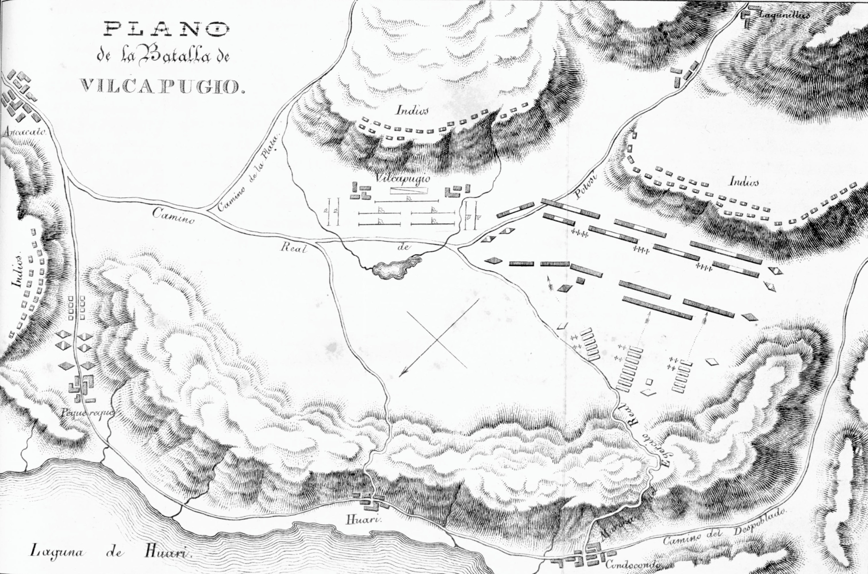 Crude sketch of the Battle of Vilcapugio (1813).